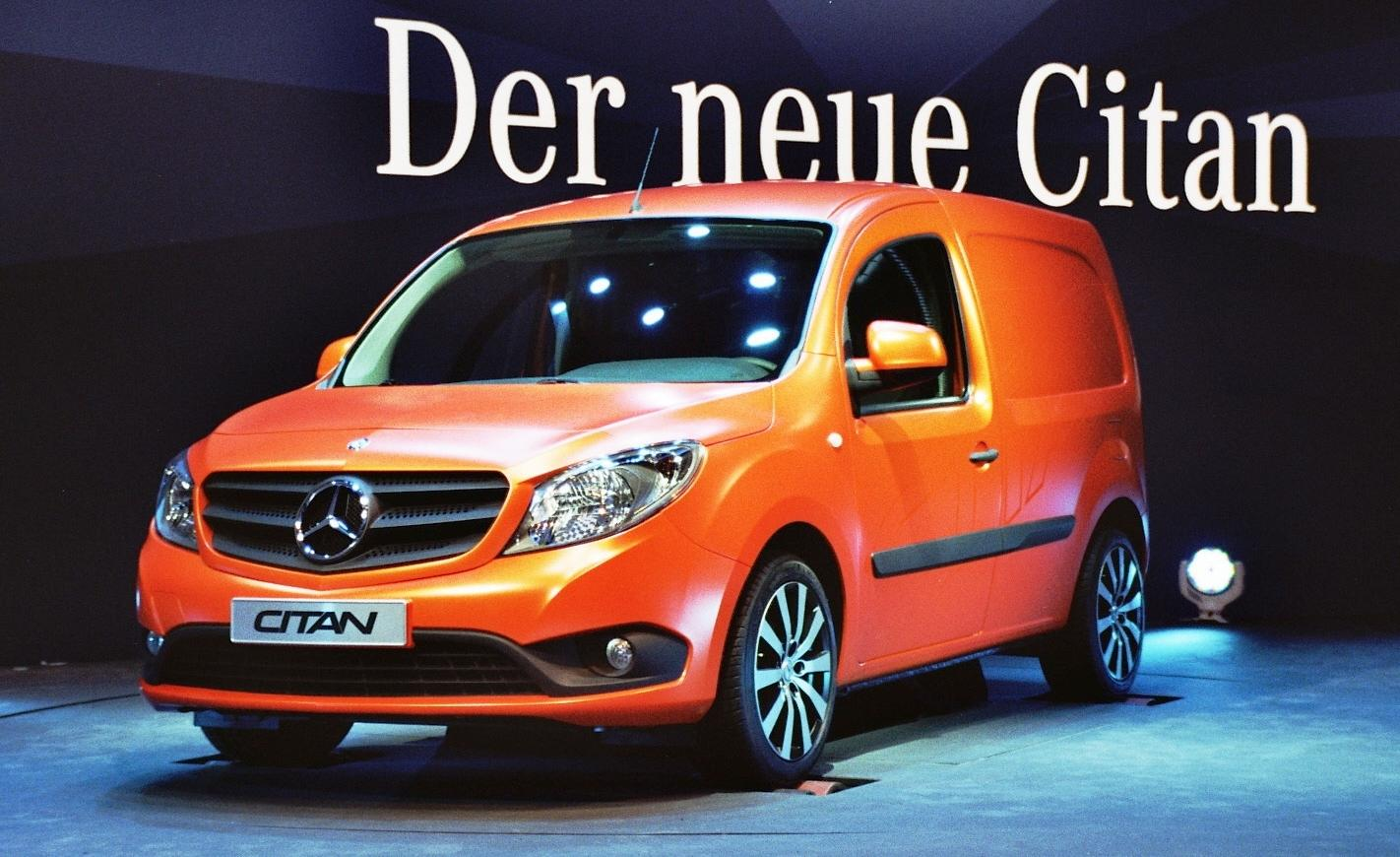 Mercedes-Benz Citan Van, photo taken at exhibition IAA 2012 in Hanover, Germany.